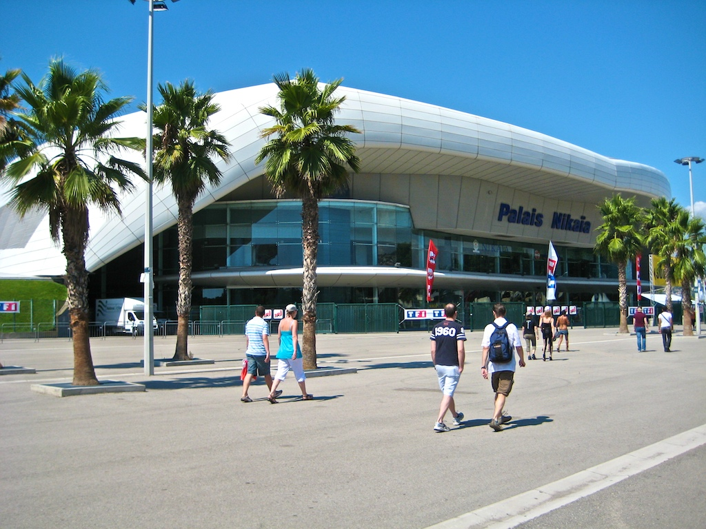 Palais Nikaia in Nice, France.